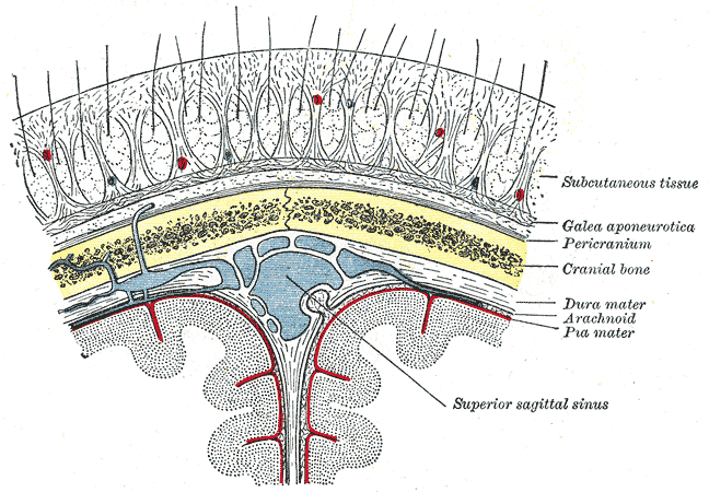 Layers of the scalp, skull and meninges, including the superior sagittal sinus